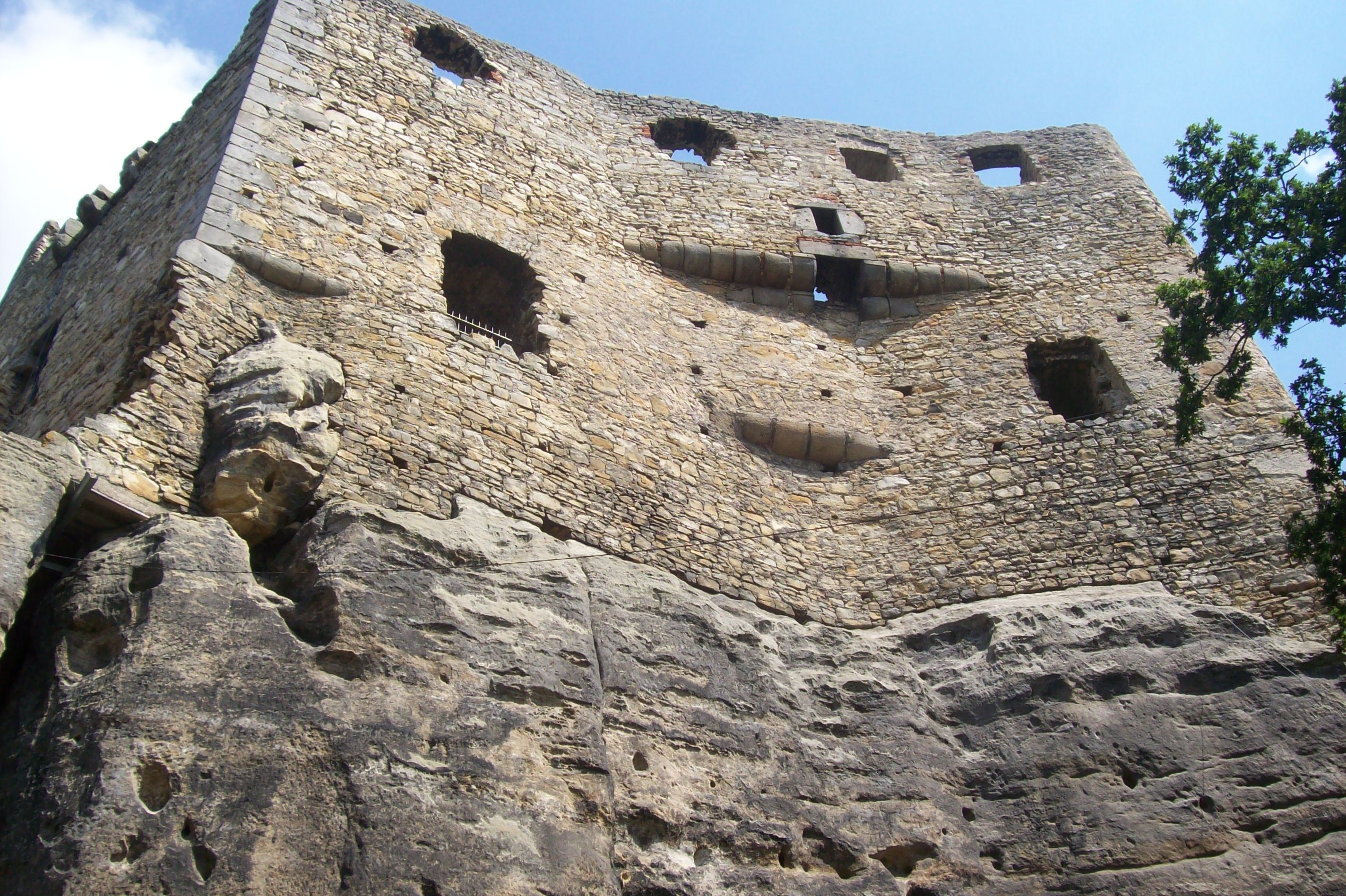 Castle near town of Mnichovo Hradiste in Cesky Raj